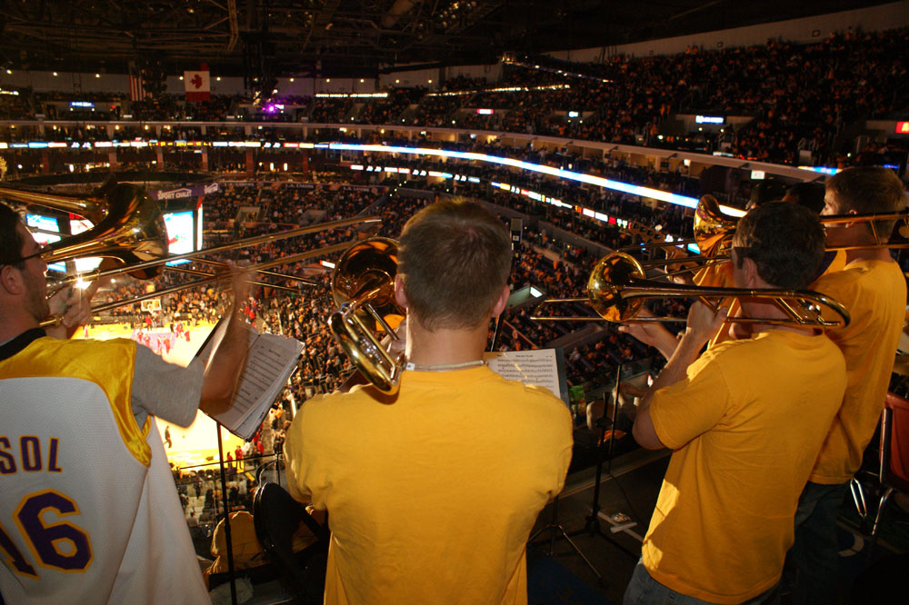 The Los Angeles Laker Band performs at the opening game of the 2009 season.